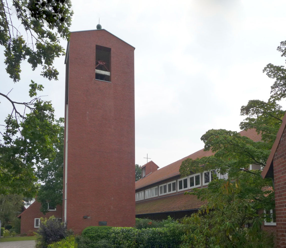 Lutheran Paul Gerhardt Church in Bremen-Roennebeck